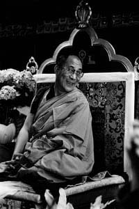 His Holiness Dalai-Lama, 1988